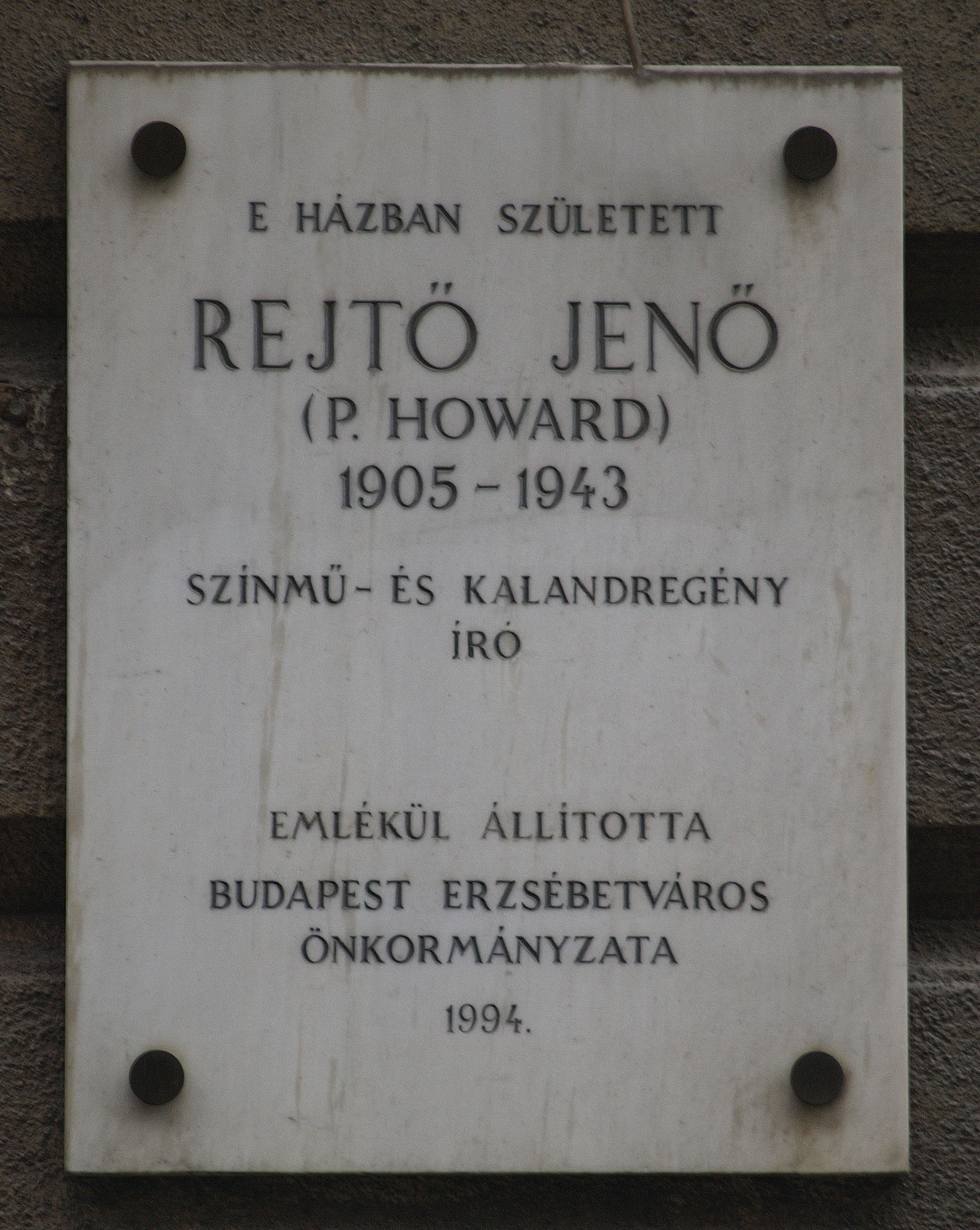 Jenő Rejtő commemorative plque in Budapest District VII, Hevesi Sándor Square 5 (near Rejtő Jenő Street)